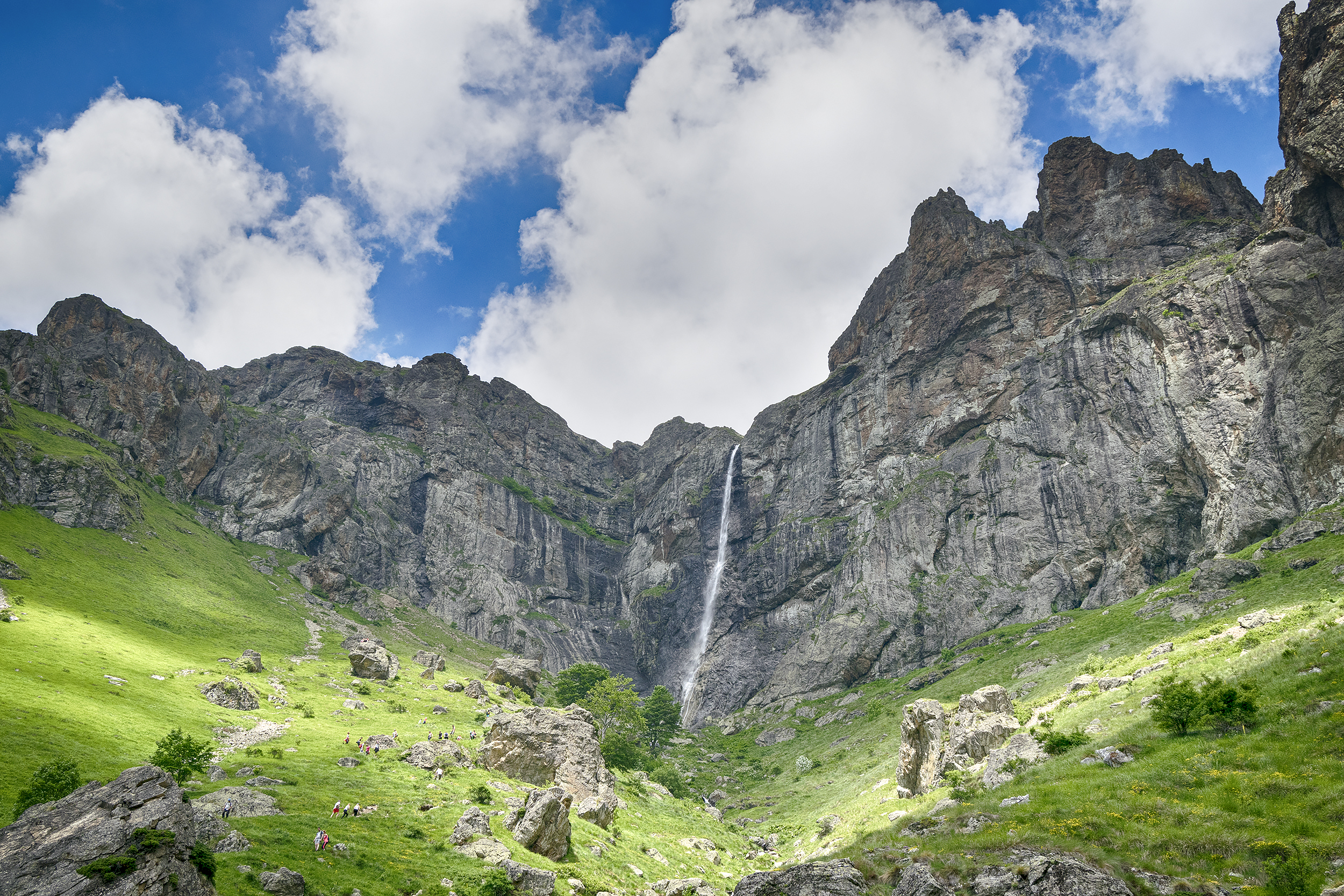 Waterfall Raysko Praskalo in the Balkan Mountains